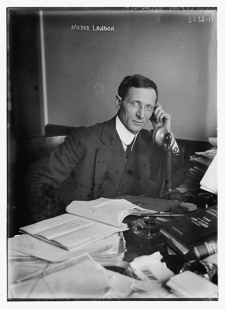 Meyer London Bain News Service,, publisher. Meyer London [between ca. 1910 and ca. 1915] 1 negative : glass ; 5 x 7 in. or smaller. Notes: Title from unverified data provided by the Bain News Service on the negatives or caption cards. Forms part of: George Grantham Bain Collection (Library of Congress). Format: Glass negatives. Repository: Library of Congress, Prints and Photographs Division, Washington, D.C. 20540 USA, General information about the Bain Collection is available at Persistent URL: Call Number: LC-B2- 3288-11